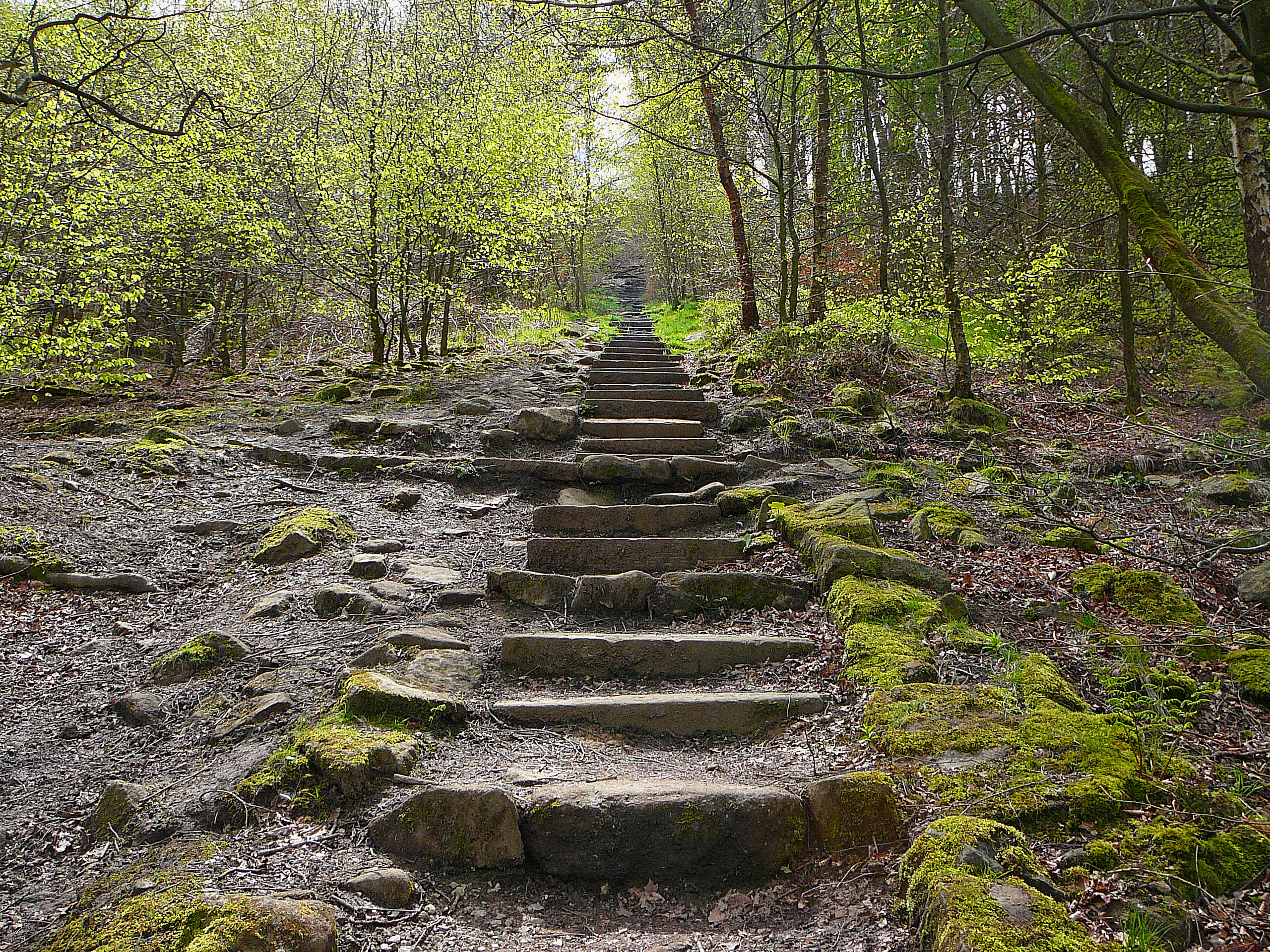 I think these are the same steps I took back in the autumn! It's hard to tell, there are so many ...